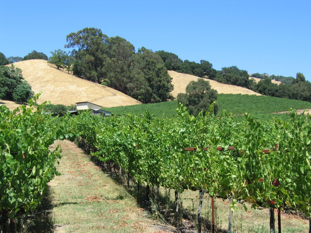 While the most expansive vineyards in California's Wine Country lie on unincorporated county land, several smaller vineyards, including this one near Fountain Grove, lie within or just outside the city limits of Santa Rosa, California, United States.